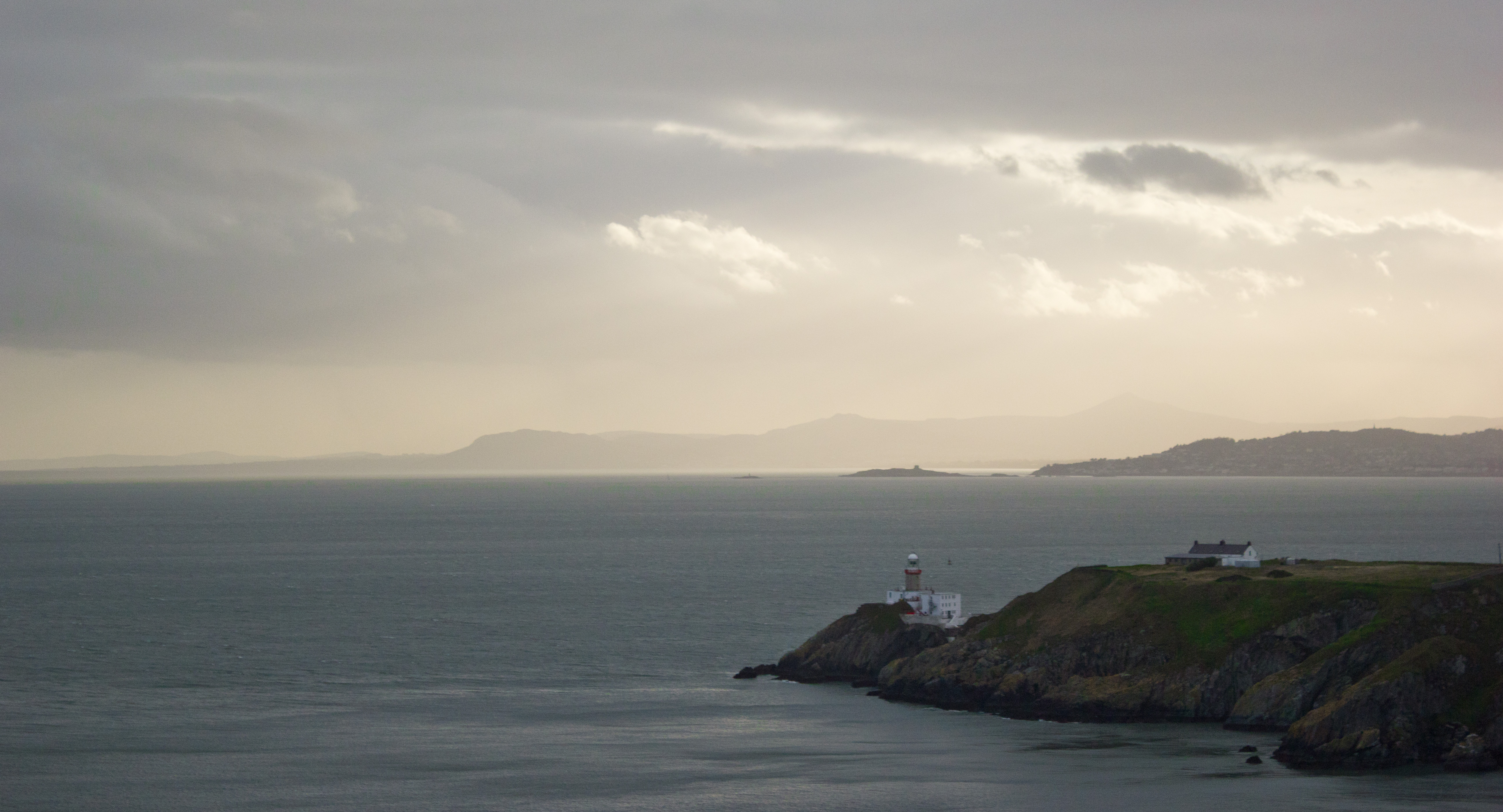 Ireland 2011